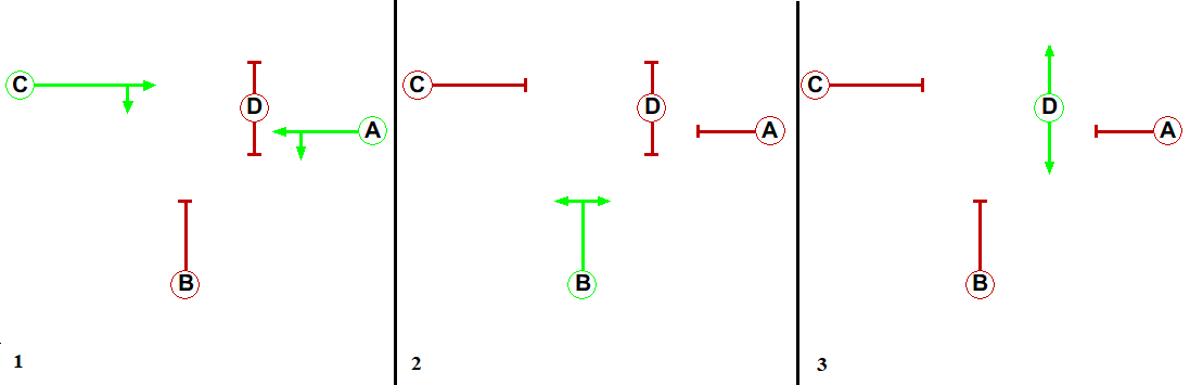 Simple example of traffic light control phases and stages